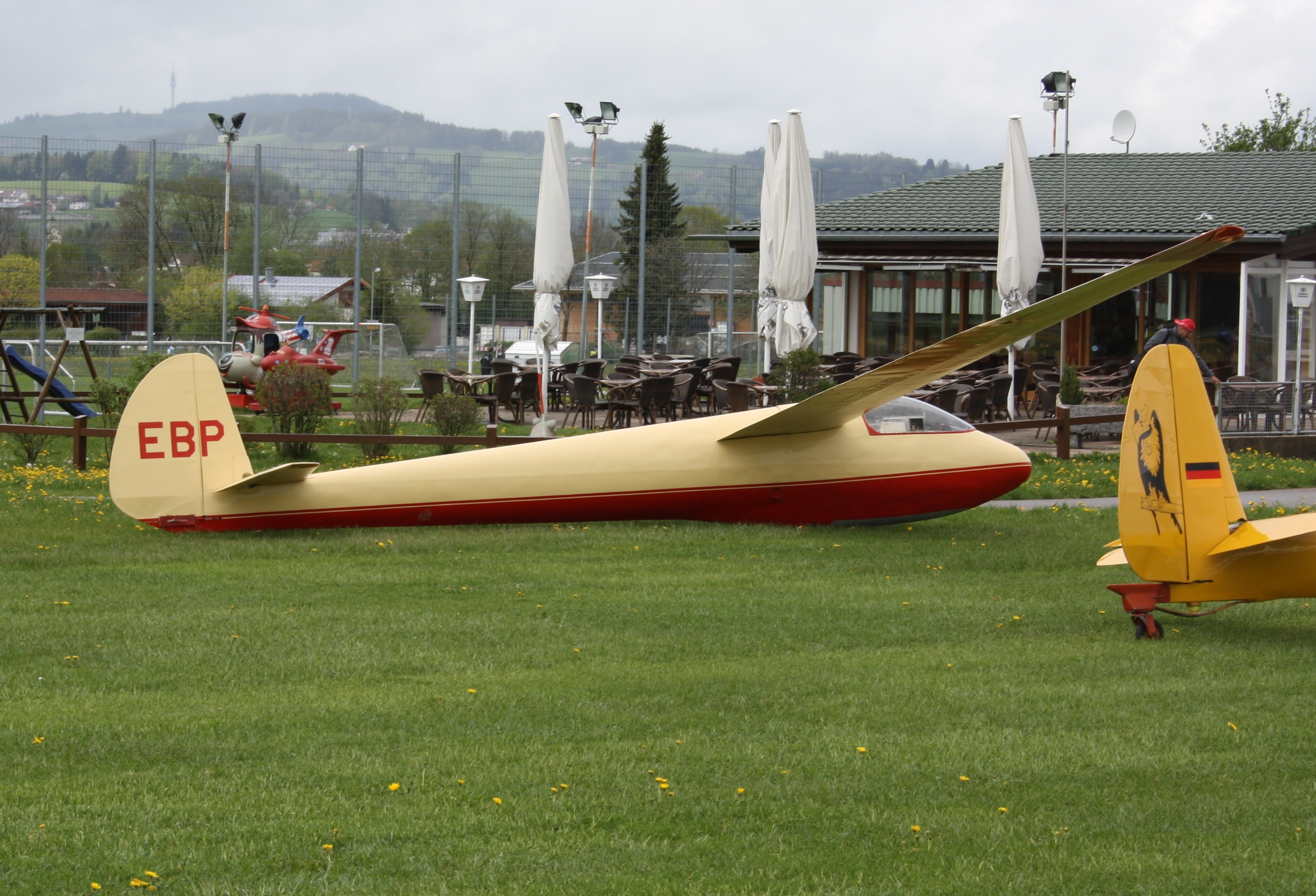 Sailplane Geier I at airfield Kempten-Durach